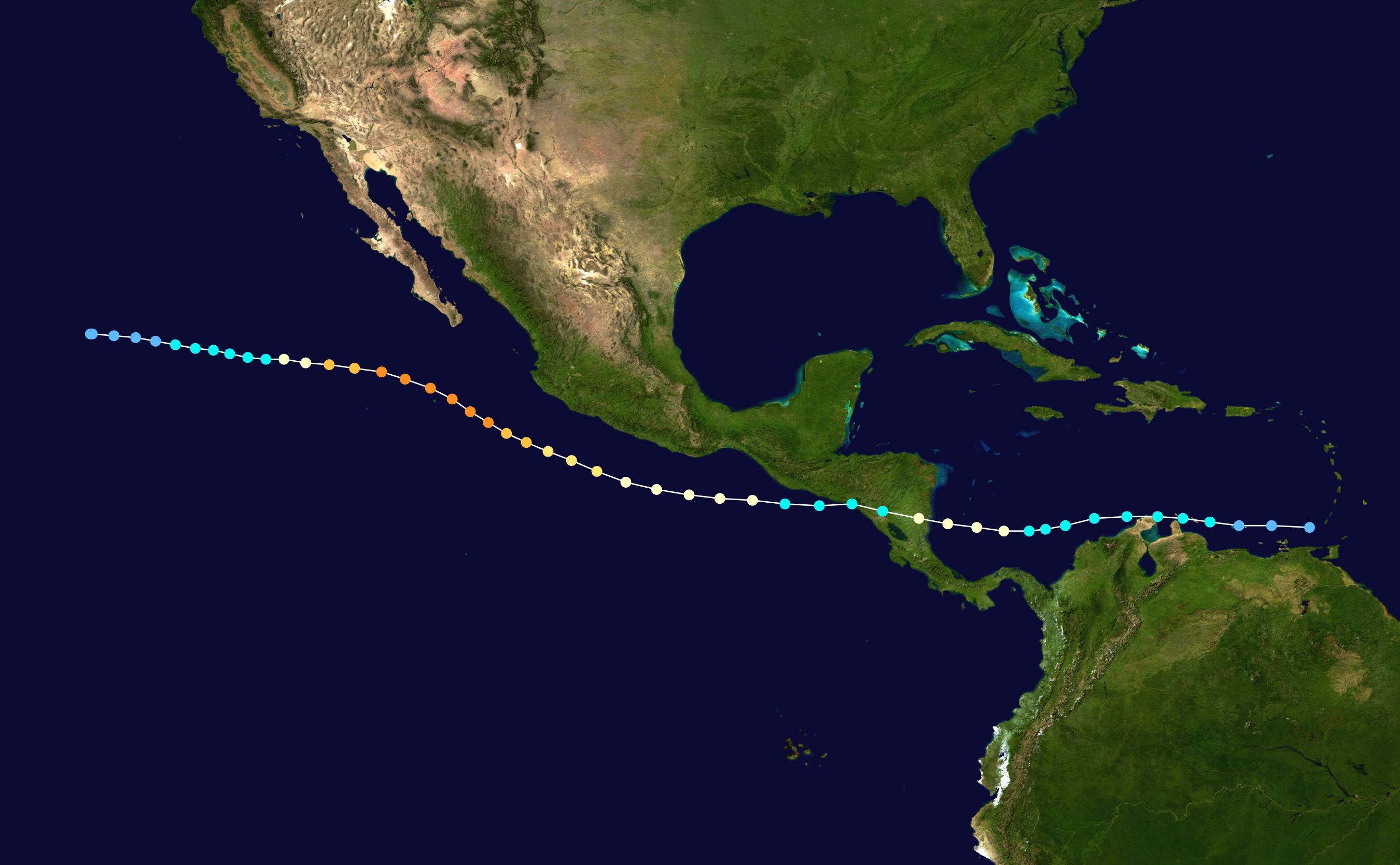 Track map of Hurricane Cesar–Douglas of the 1996 Atlantic hurricane season and the 1996 Pacific hurricane season. The points show the location of the storm at 6-hour intervals. The colour represents the storm's maximum sustained wind speeds as classified in the Saffir–Simpson scale (see below), and the shape of the data points represent the nature of the storm, according to the legend below. Saffir–Simpson scale Tropical depression≤38 mph≤62 km/h Category 3111–129 mph178–208 km/h Tropical storm39–73 mph63–118 km/h Category 4130–156 mph209–251 km/h Category 174–95 mph119–153 km/h Category 5≥157 mph≥252 km/h Category 296–110 mph154–177 km/h Unknown Storm type Tropical cyclone Subtropical cyclone Extratropical cyclone / Remnant low / Tropical disturbance / Monsoon depression